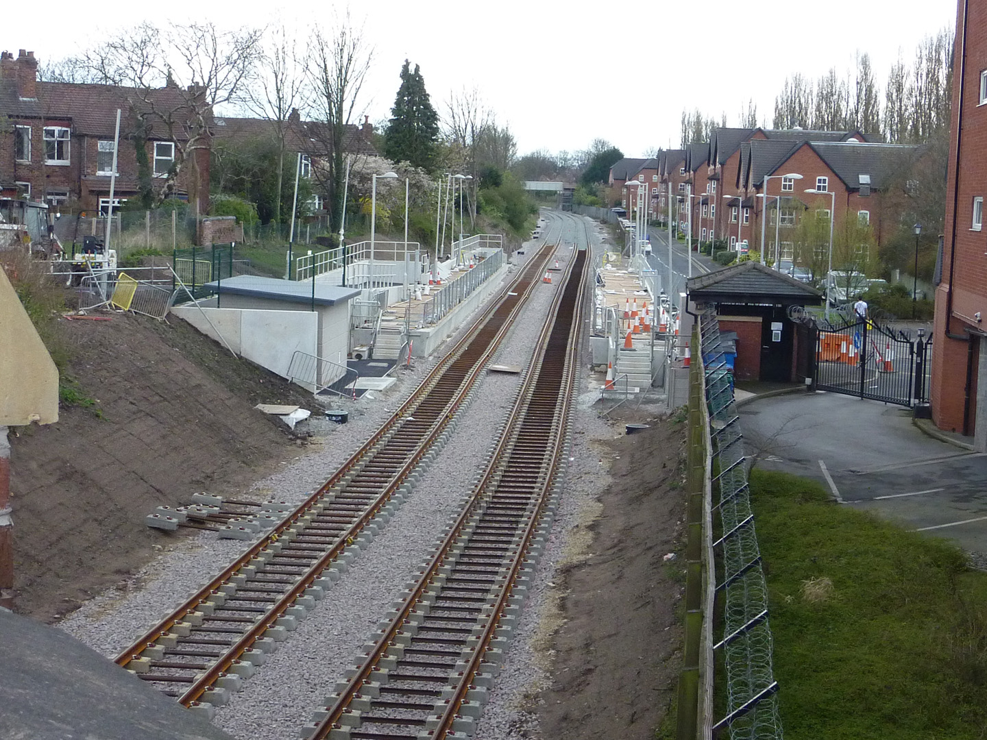 Didsbury Village Metrolink Stop Under Construction